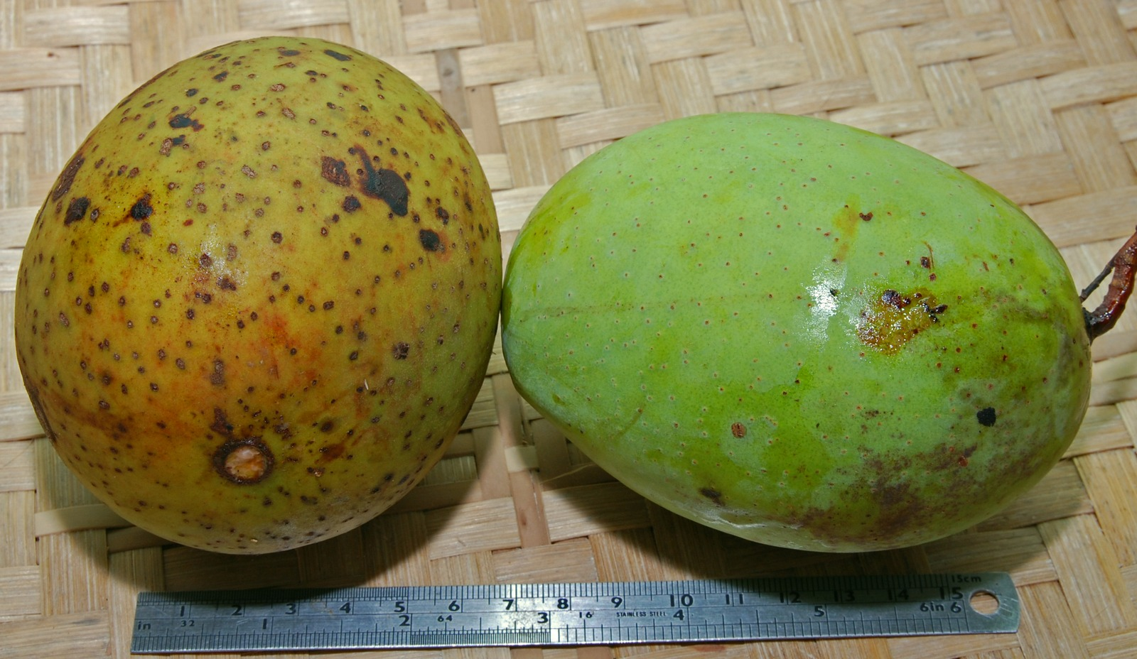 Mangifera foetida (left) in comparison with M. odorata (right). From Bogor, West Java, Indonesia